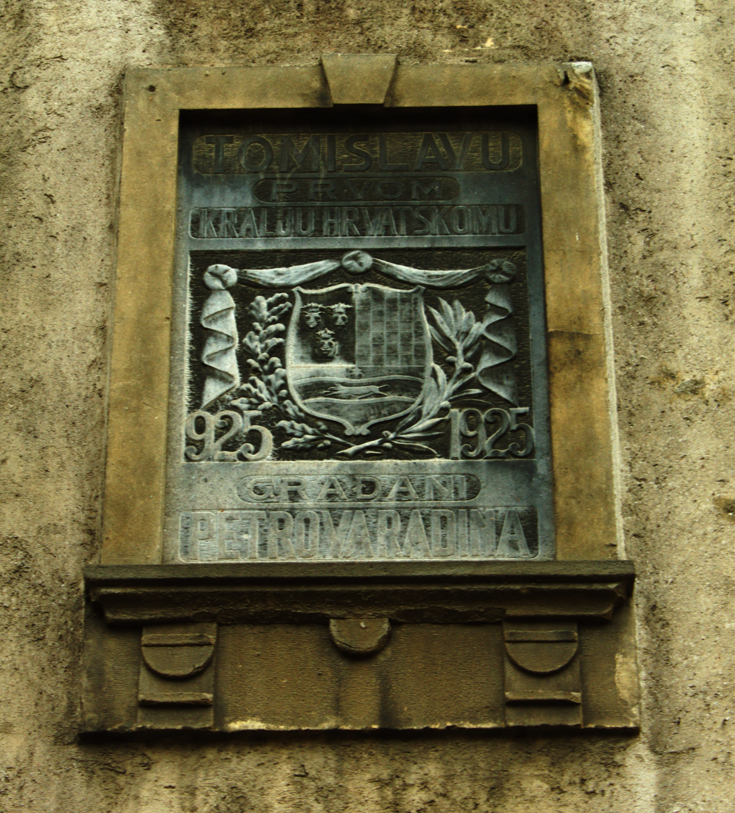 A memorial plaque dedicated to croatian king Tomislav on the walls of church of st. George, Petrovaradin, Serbia